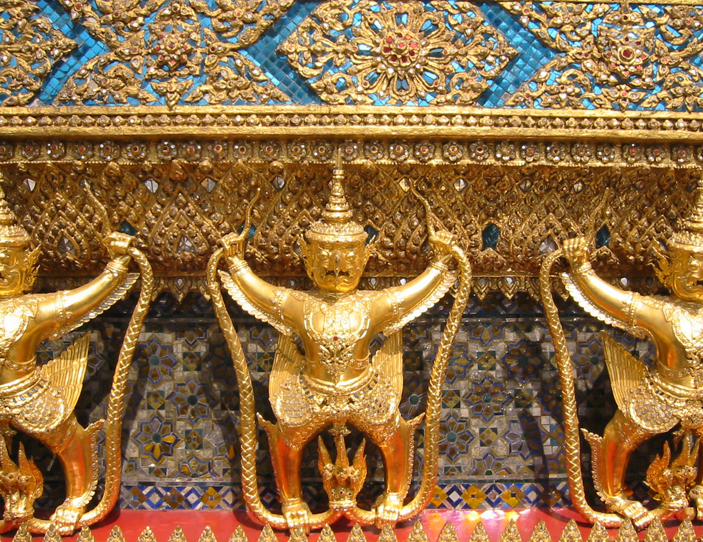 Temple Facade: Garuda and Nagas at the Ubosot of Wat Phra Kaeo, Bangkok.